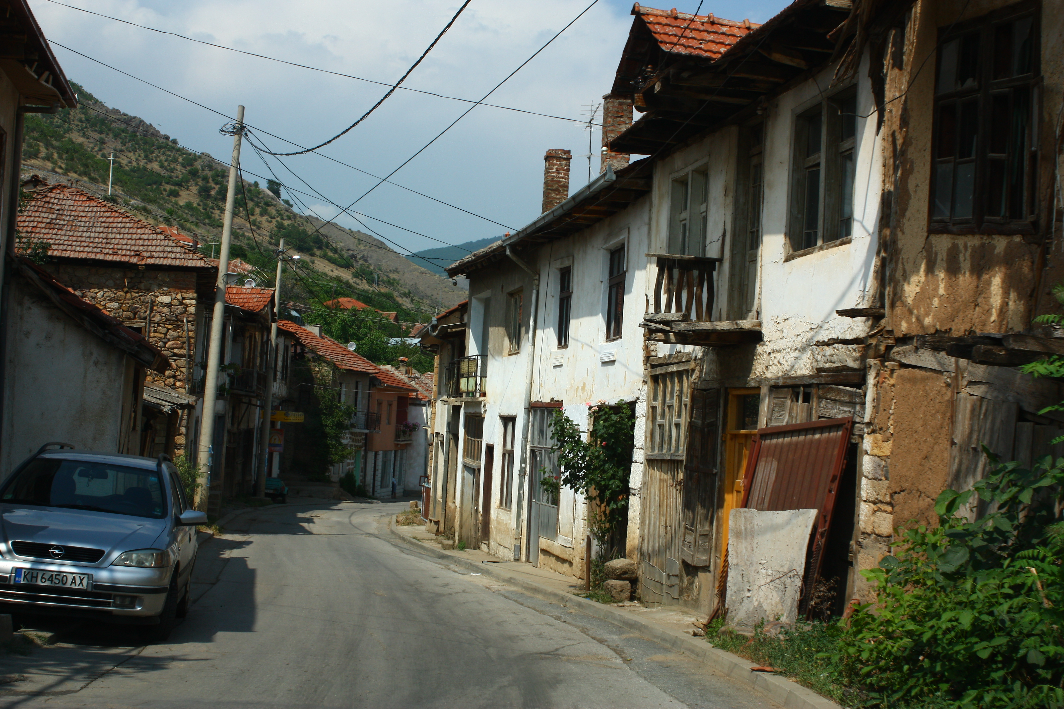 Zletovo, Macedonia